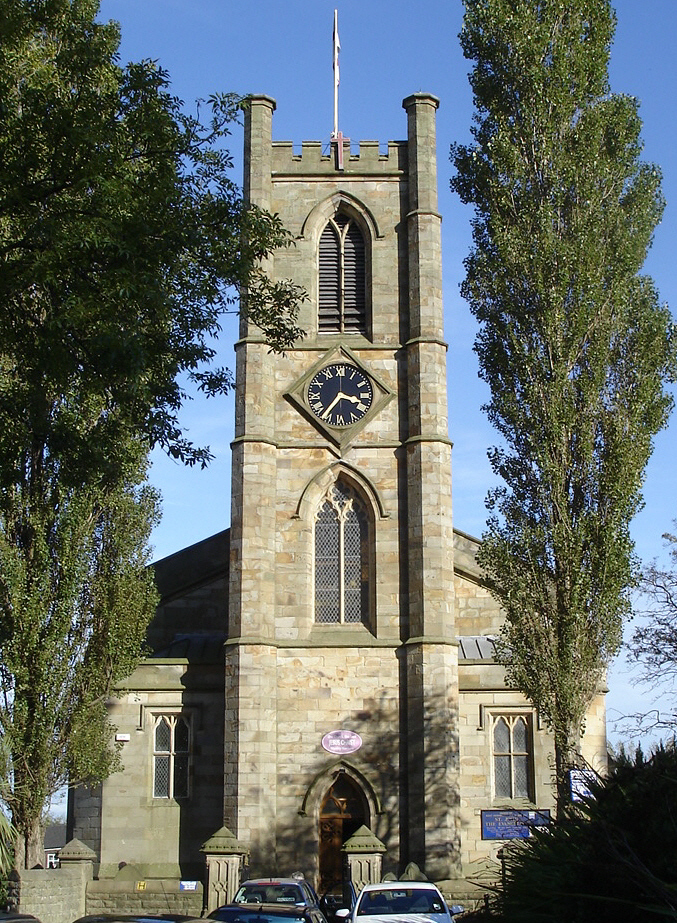 St John the Evangelist's parish church, Farnworth, Bolton, England, seen from the west